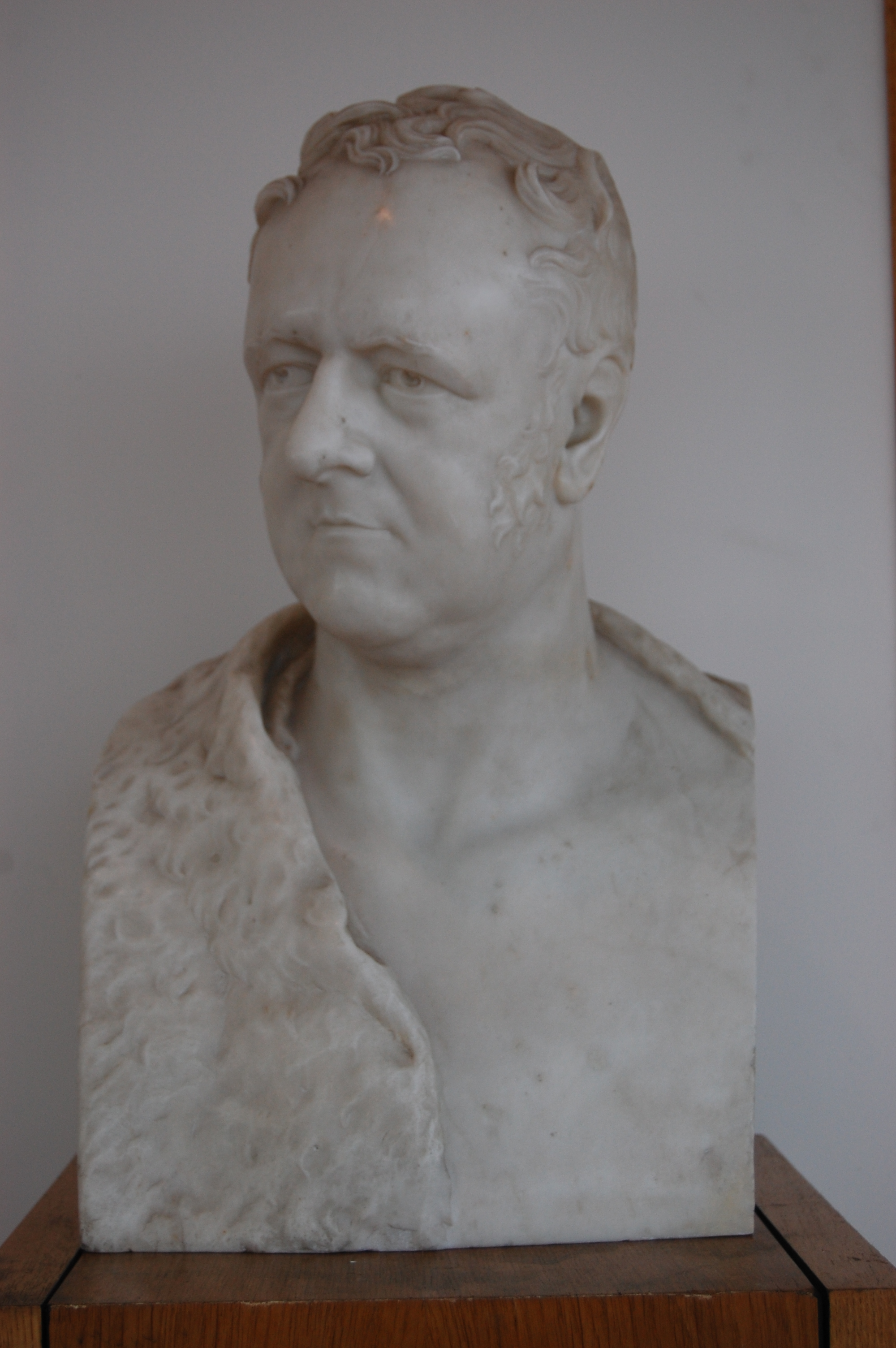 Bust of William Hamper (1776-1831), Antiquarian, in the Library of Birmingham, seen during a preview tour in the week before opening.